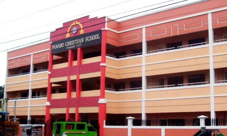 The Panabo Christian School facade.